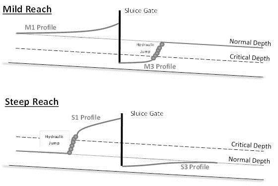 Different Surface Water Profiles experienced by a sluice gate in a steep and mild reach